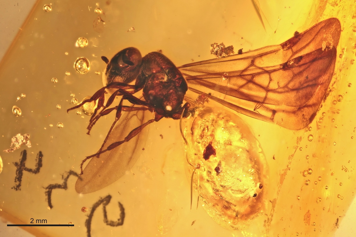 Profile view of a Carebara antiqua queen. Middle Eocene; Baltic amber, Samland Peninsula, Kalingrad, Russia Natural History Museum, London, United Kingdom. Specimen BMNHP18806